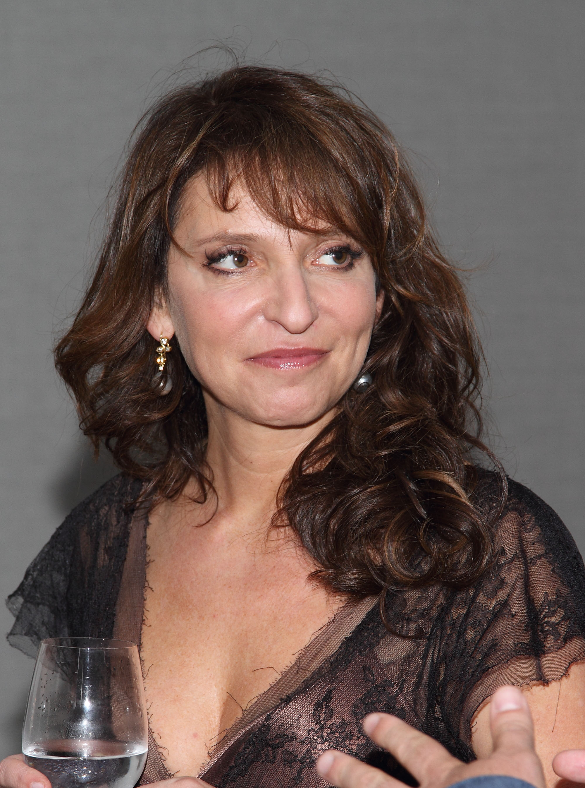 Susanne Bier at the 2011 Miami International Film Festival Career Achievement Tribute Dinner for her